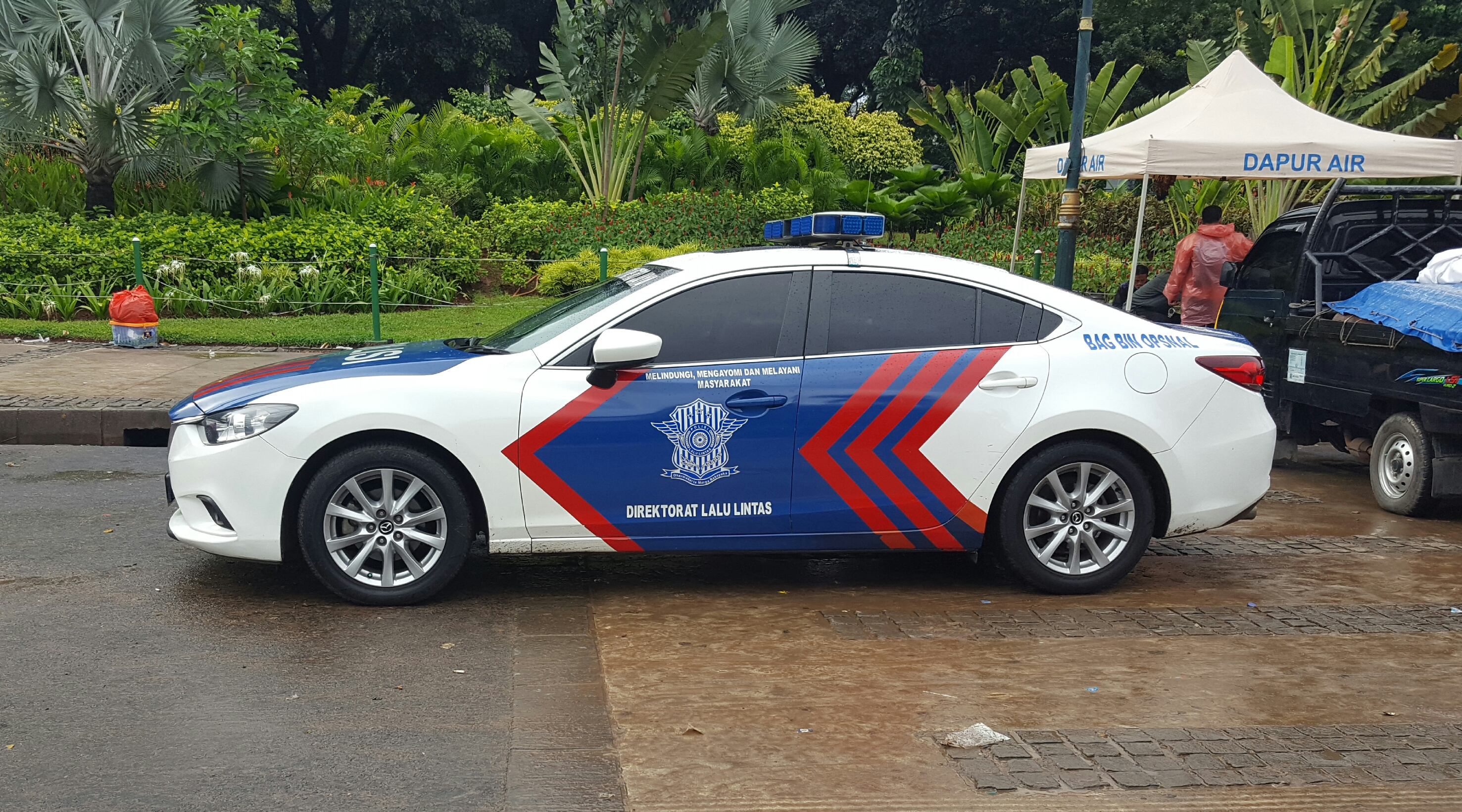 Mazda 6 traffic police car